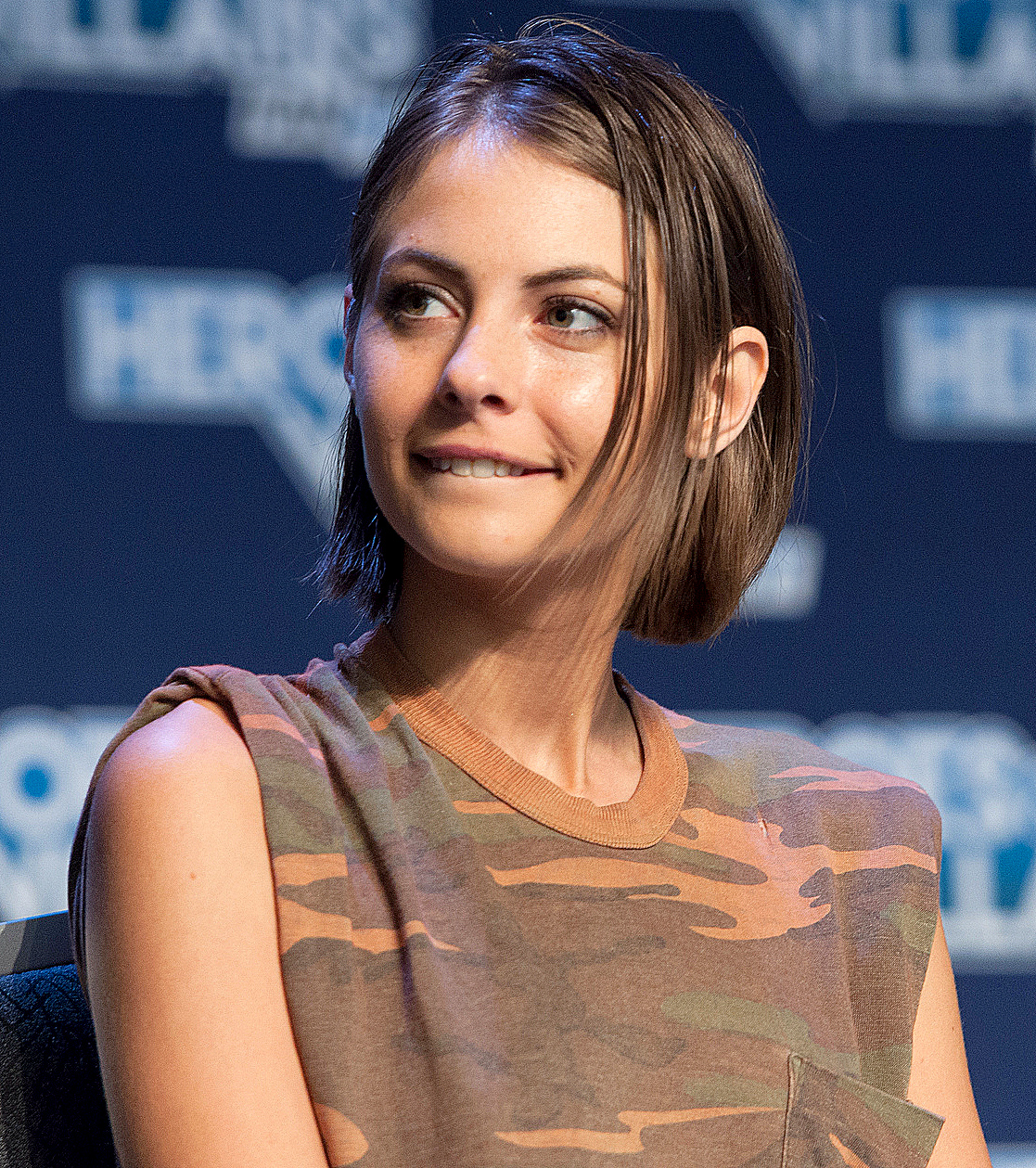 Heroes & Villains Fan Fest 2016